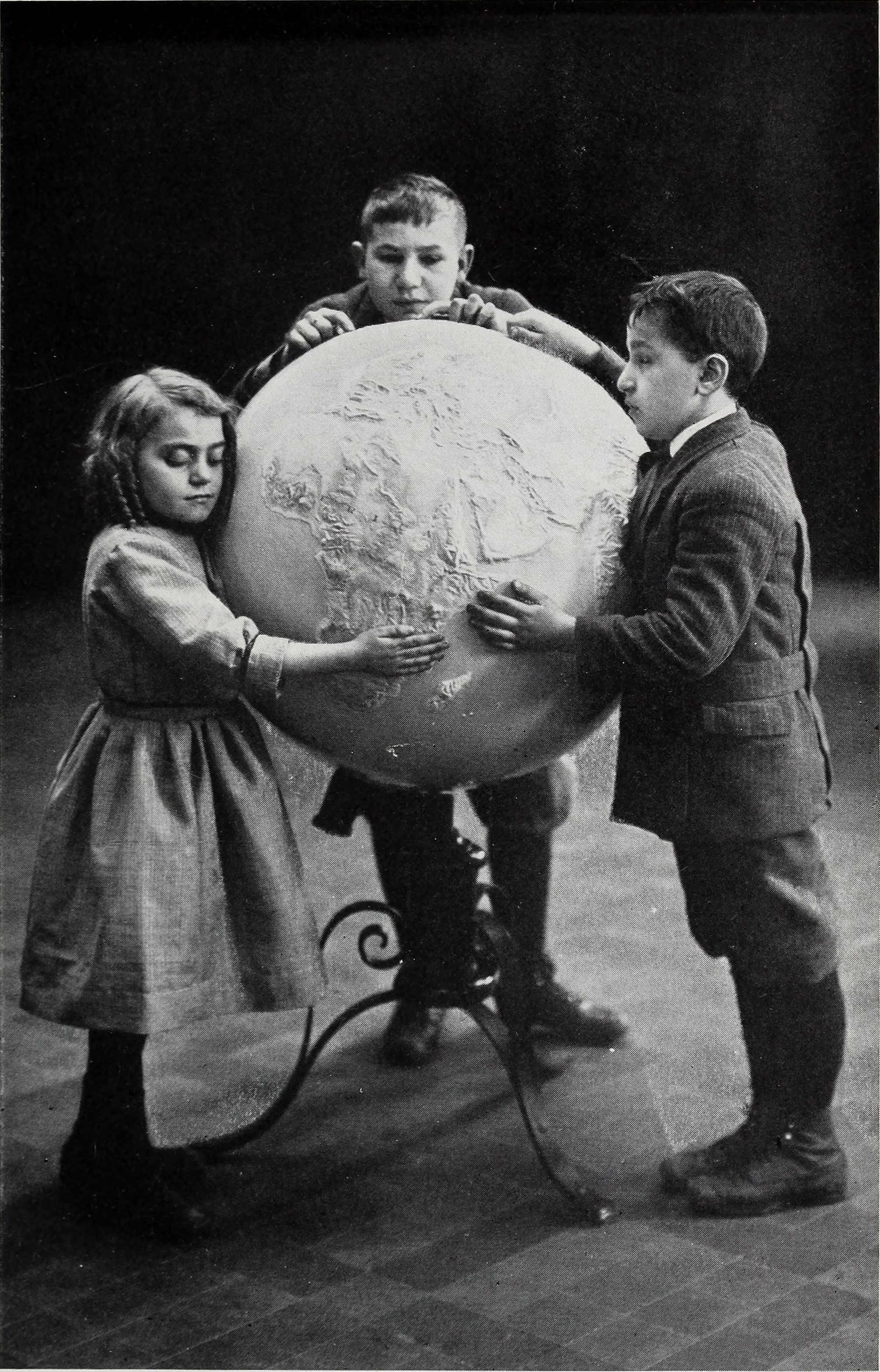 Title: Annual report of the American Museum of Natural History for the year Year: 1870 (1870s) Authors: American Museum of Natural History Subjects: American Museum of Natural History; Natural history museums Publisher: New York : [The Museum] Text Appearing Before Image: ' Text Appearing After Image: department of public education Blind Children Studying Relief Map Globe for the Blind These globes have been prepared under the direction of the Department of Public Education, through the Jonathan Thorne Memorial Fund, and are loaned to the public schools for the blind